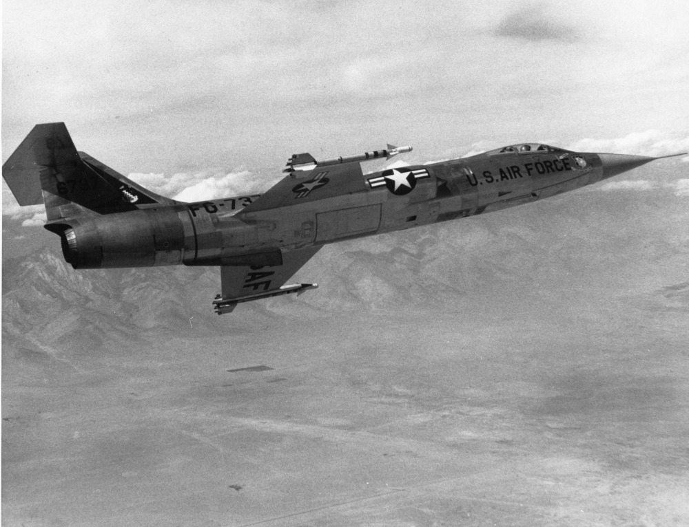 PictionID:43637139 - Title:Lockheed F-104A 56-0737 HQ ADC Colorado Springs [USAF via TJF] - Catalog:17_000337 - Filename:17_000337.tif - ---------Image from the René Francillon Photo Archive. Having had his interest in aviation sparked by being at the receiving end of B-24s bombing occupied France when he was 7-yr old, René Francillon turned aviation into both his vocation and avocation. Most of his professional career was in the United States, working for major aircraft manufacturers and airport planning/design companies. All along, he kept developing a second career as an aviation historian, an activity that led him to author more than 50 books and 400 articles published in the United States, the United Kingdom, France, and elsewhere. Far from “hanging on his spurs,” he plans to remain active as an author well into his eighties.-------PLEASE TAG this image with any information you know about it, so that we can permanently store this data with the original image file in our Digital Asset Management System.--------------SOURCE INSTITUTION: San Diego Air and Space Museum